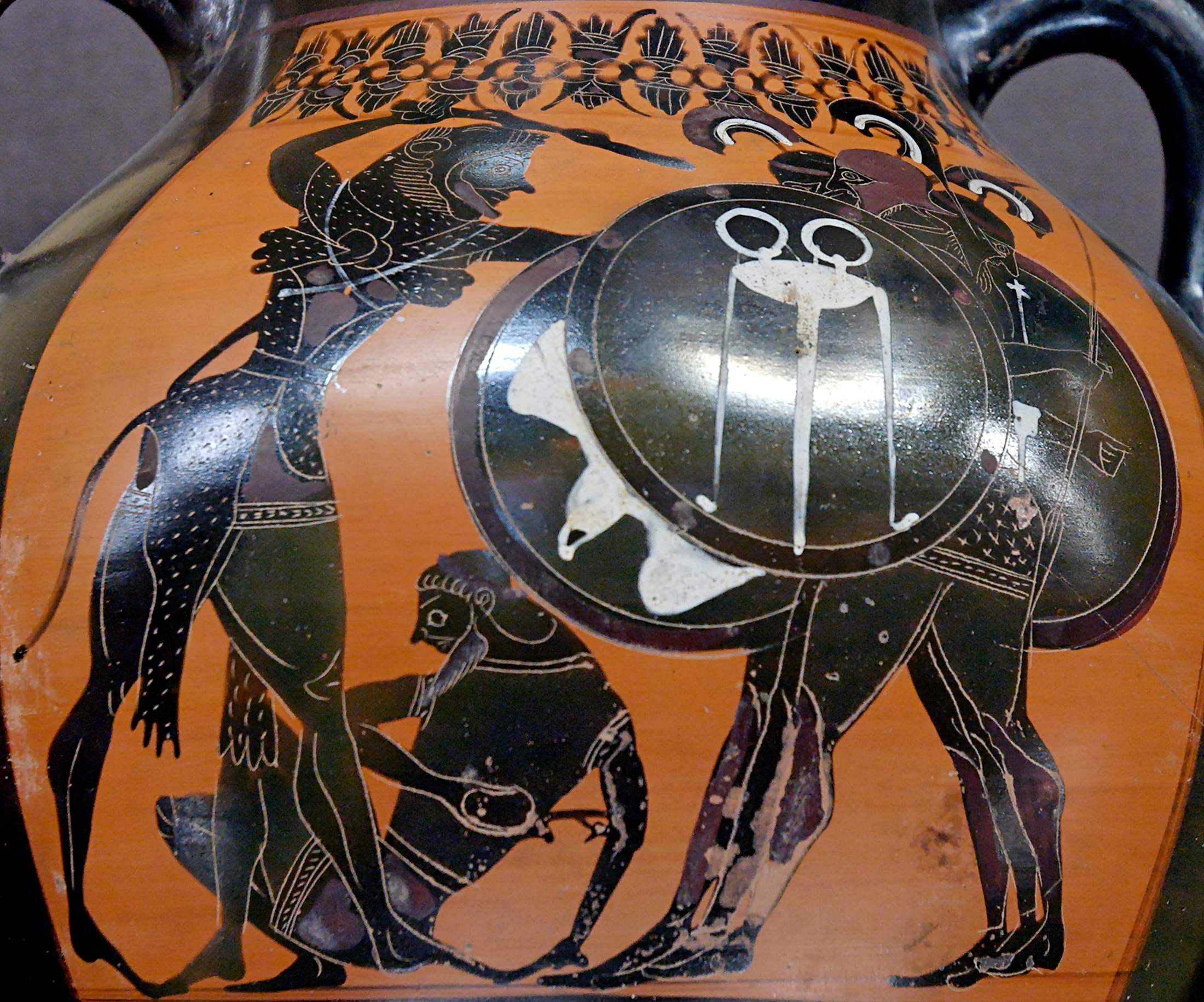 Herakles fighting Geryon (dying Eurytion on the ground). Side A from an Attic black-figure amphora.